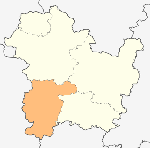 Map of Antonovo municipality, Targovishte Province